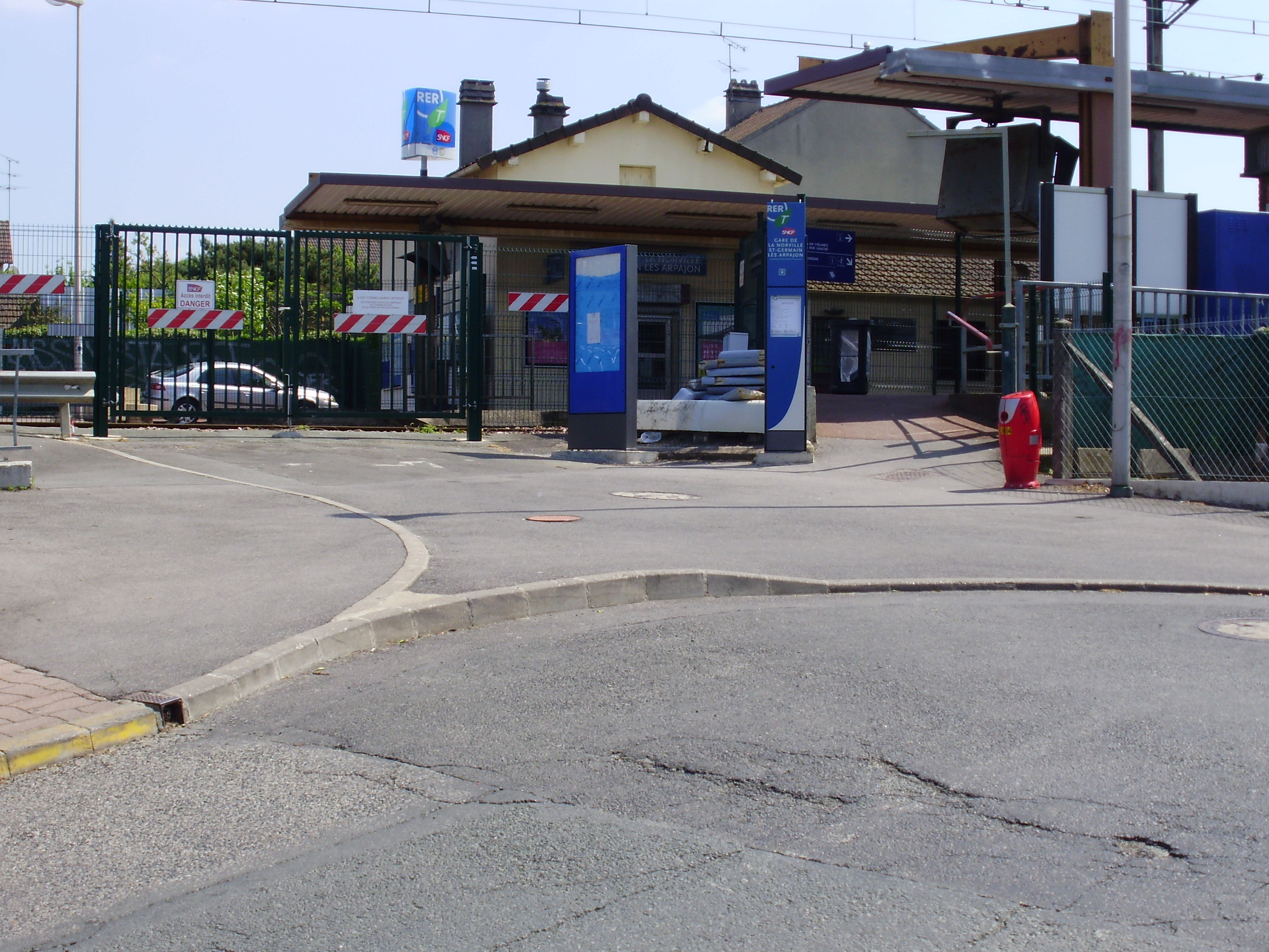 La Norville - Saint-Germain-lès-Arpajon station, in La Norville, Essonne, France (north entrance)